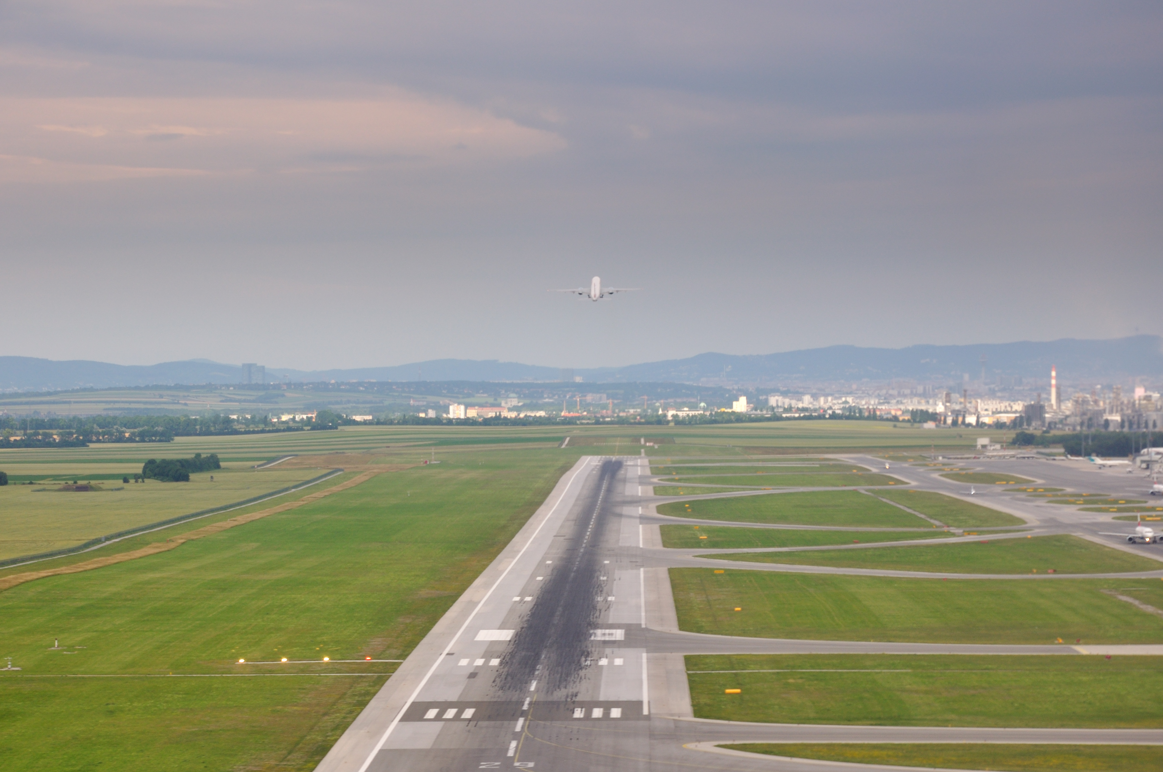 Austria, climbing out of Wien-Schwechat